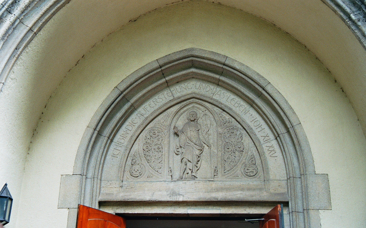 Portal of the Lutheran Christ Church (Christuskirche) in Neuhausen, Munich, Bavaria, Germany.